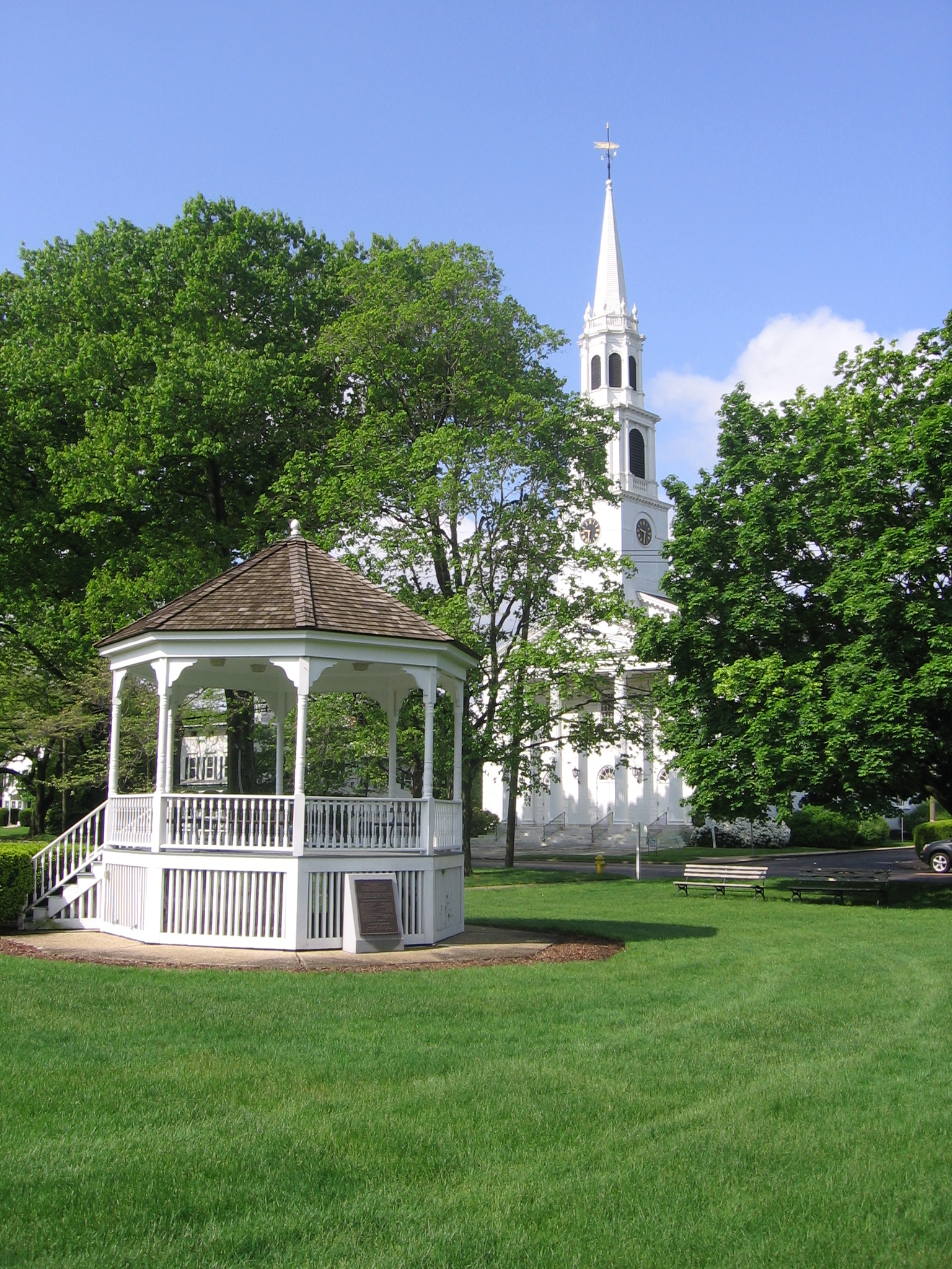 Gazebo on the Norwalk Green with the 1st Congregational Church in the distance. This view is looking southwest.